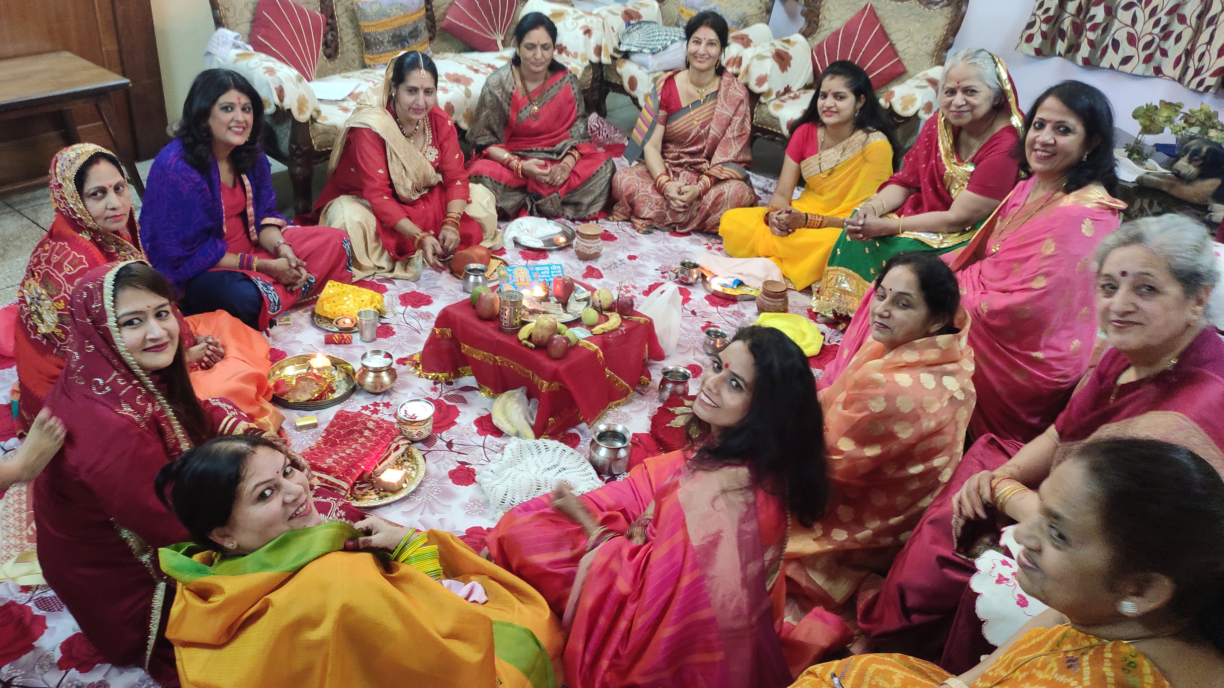 The fasting women collectively sitting in a circle, while doing Karva Chauth puja, singing song while performing the feris (passing their thalis around in the circle)